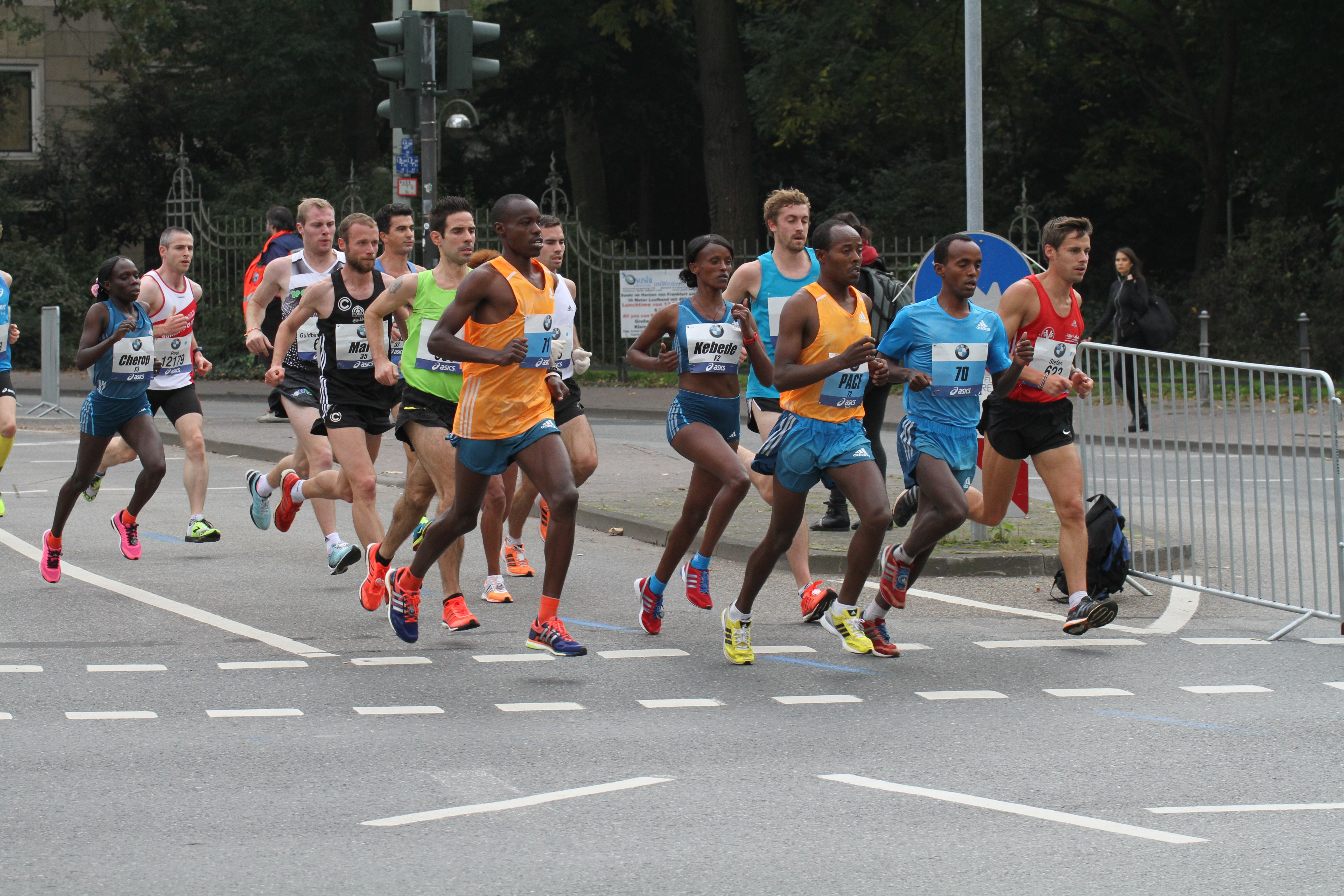 Aberu Kebede, Frankfurt Marathon 2014